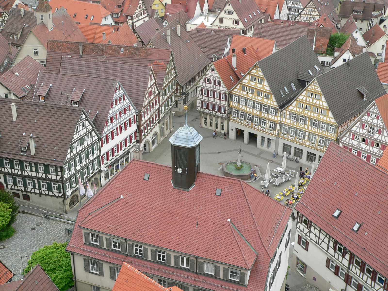 Market Square in Herrenberg, Germany, seen from the tower of the church Stiftskirche